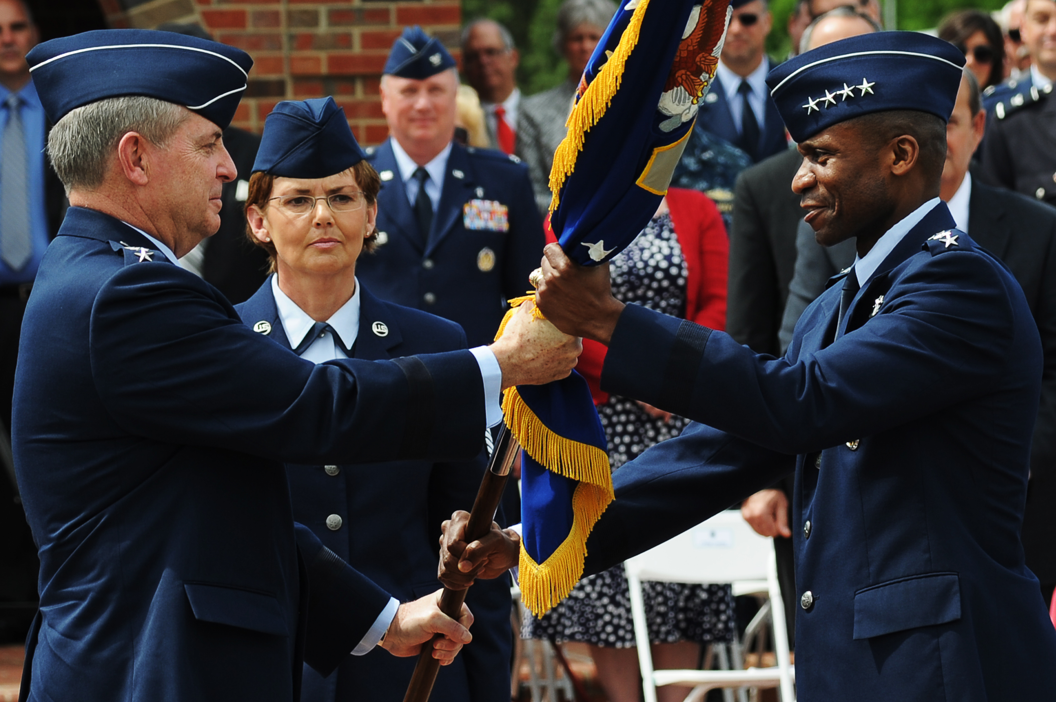 Gen. Mark A. Welsh III, Air Force Chief of Staff, passes Air Mobility Command’s guidon May 5, 2014 to Gen. Darren W. McDew during a change of command ceremony at Scott Air Force Base, Illinois. McDew is the 11th commander of AMC since its activation June 1, 1992.